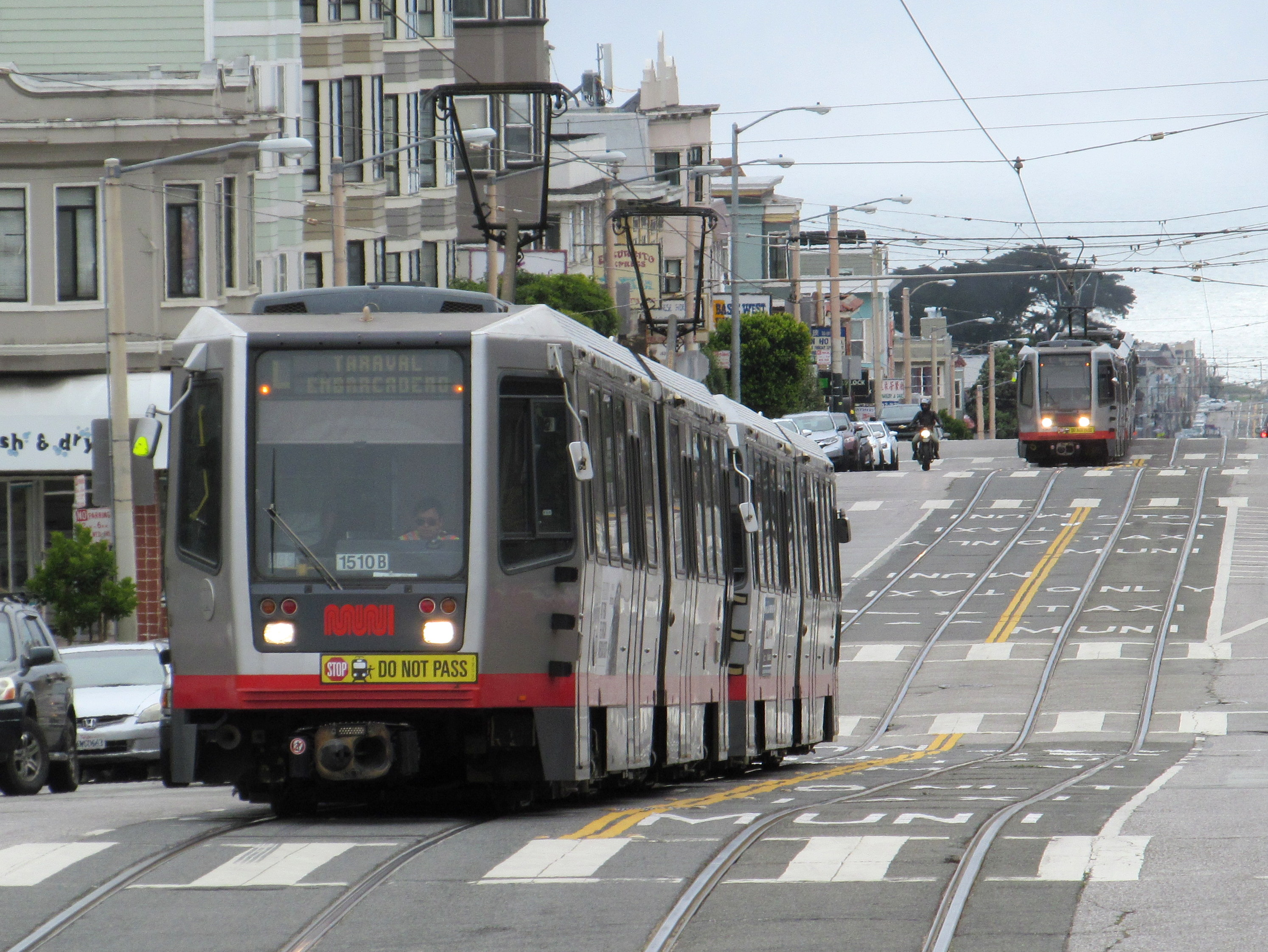 Two inbound L Taraval trains on a foggy day in June 2017. The near train is at the former inbound platform location at 24th Avenue (closed in February 2017); the far train is crossing 27th Avenue.